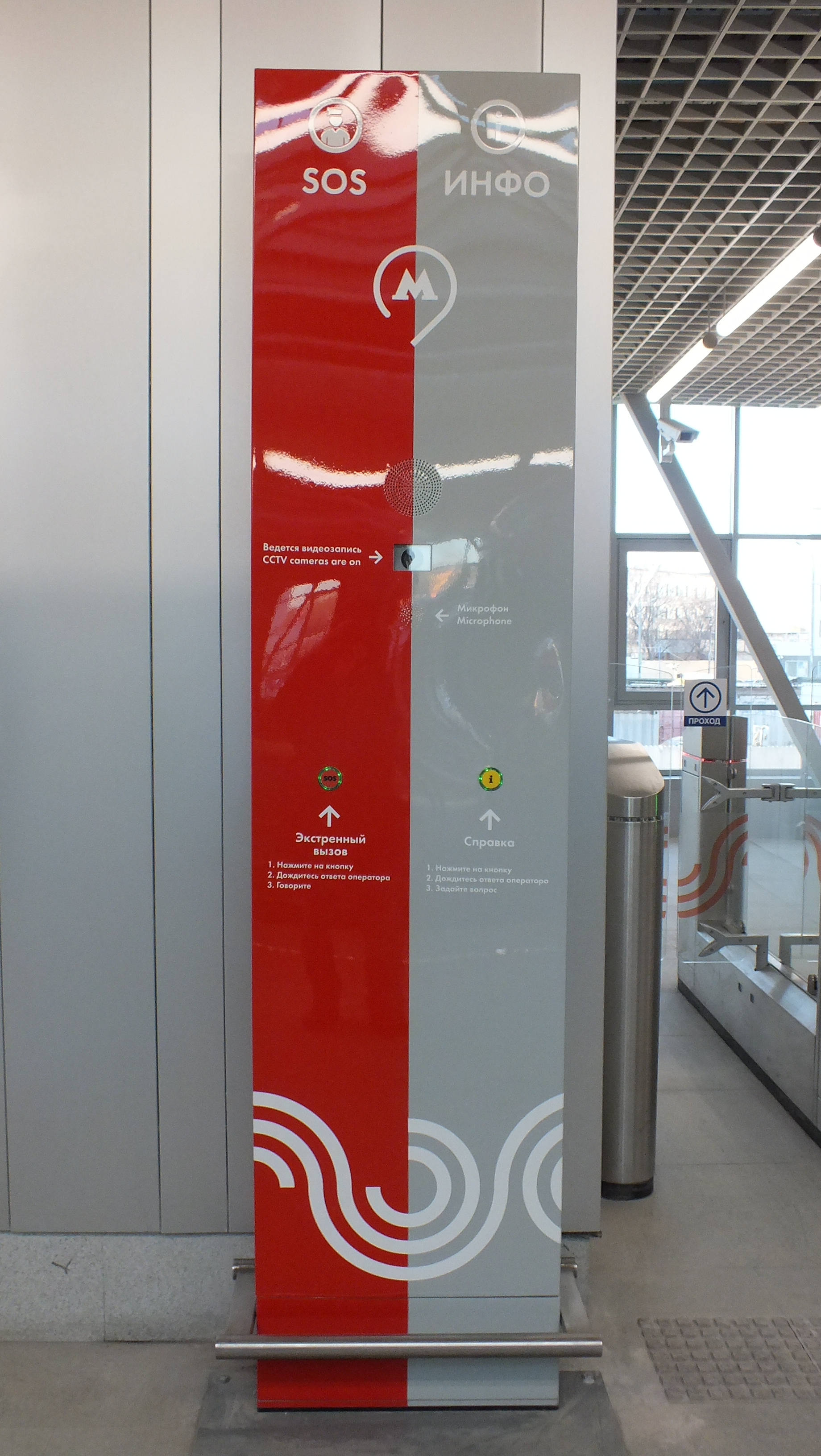 Tekhnopark station of Moscow Metro